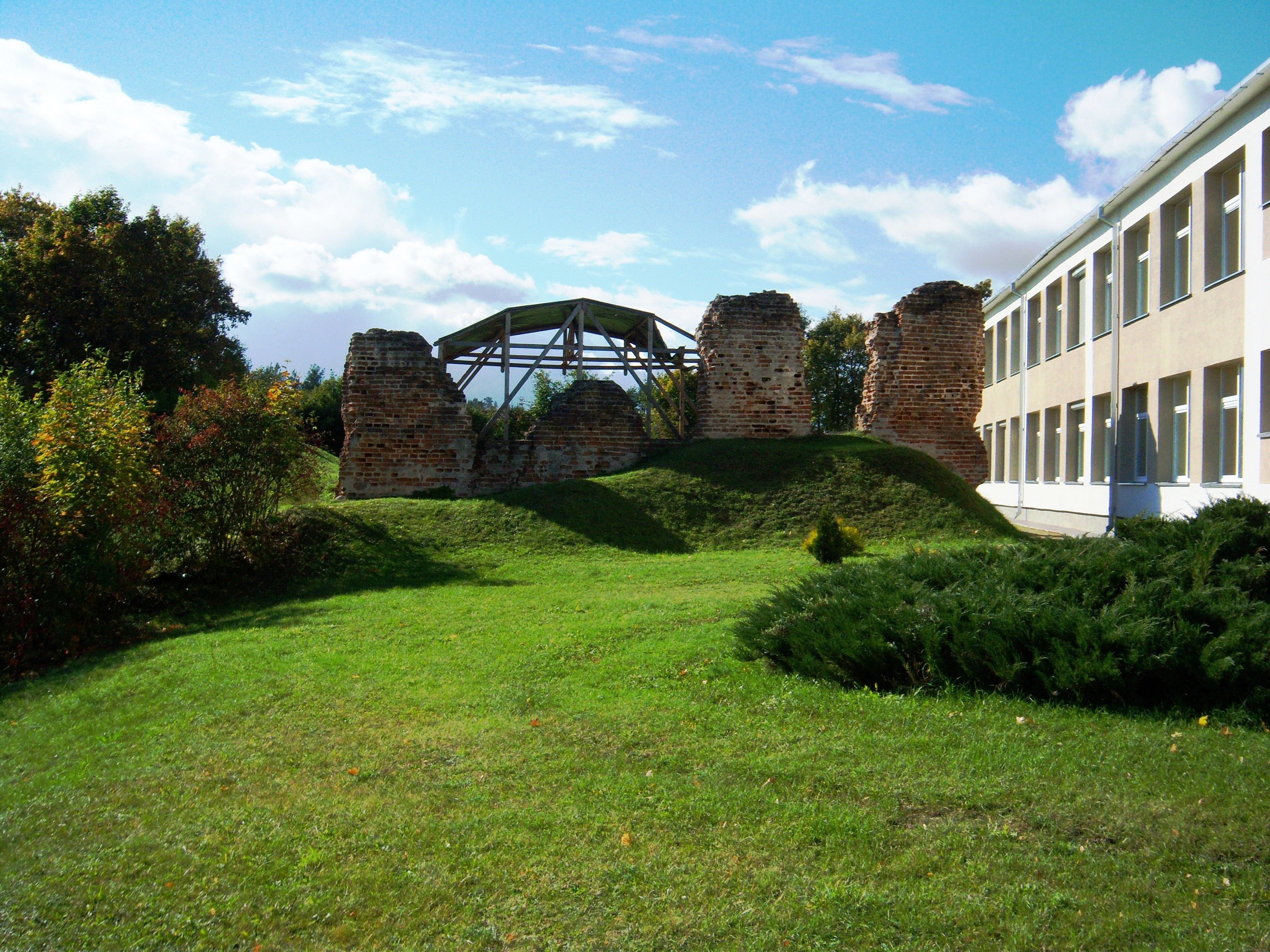 Remnants of the former Kruonis manor, Kaišiadorys District, Lithuania